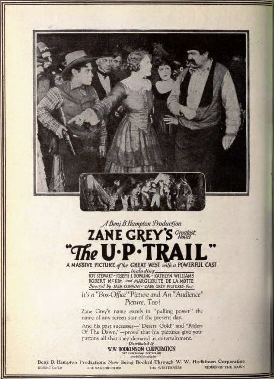 Advertisement for the American western film The U.P. Trail (1920) with Roy Stewart, Kathlyn Williams, and an unidentified actor, on page 10 of the December 18, 1920 Exhibitors Herald.